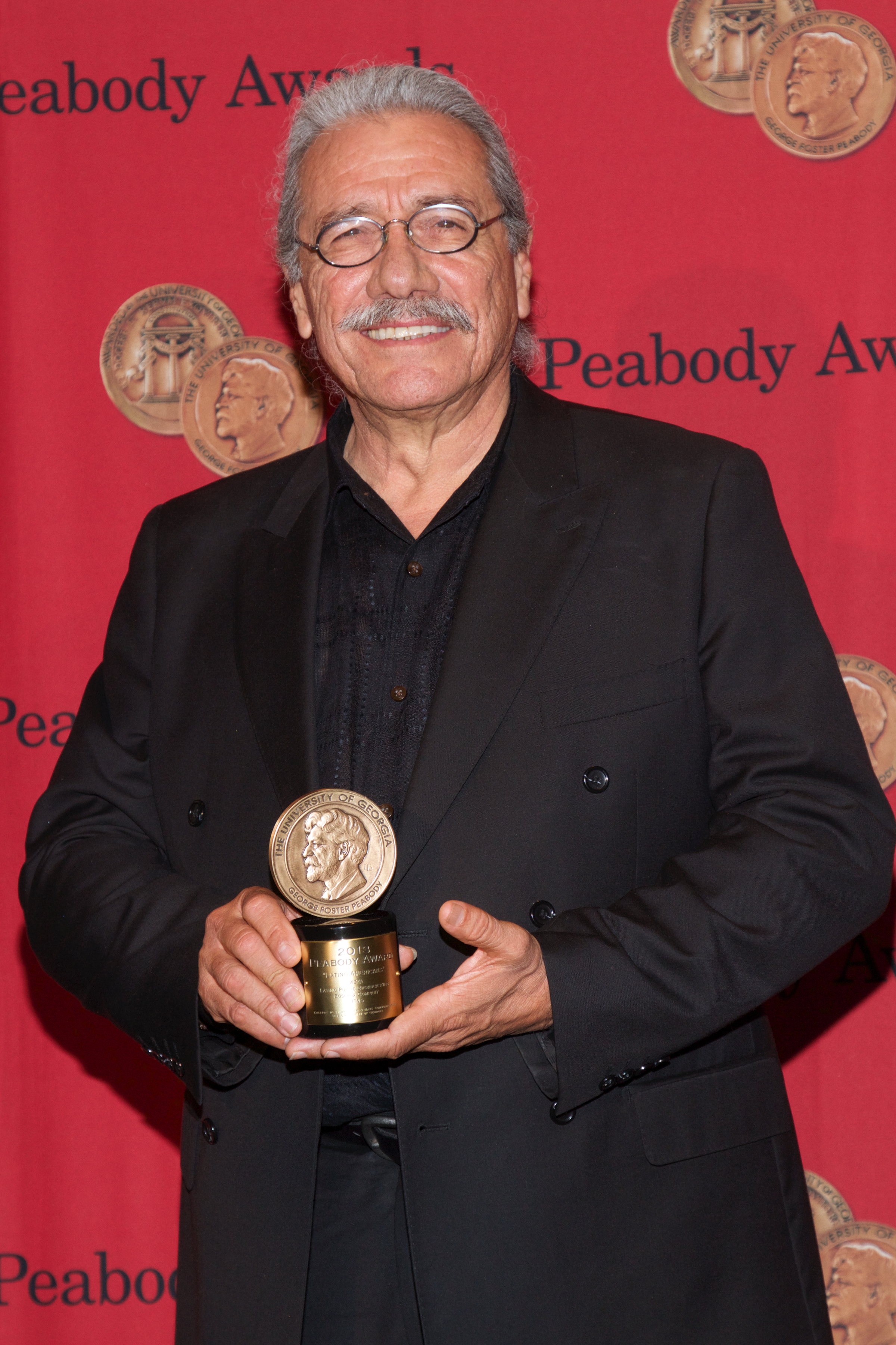 Edward James Olmos holds the Peabody Award for "Latino Americans."